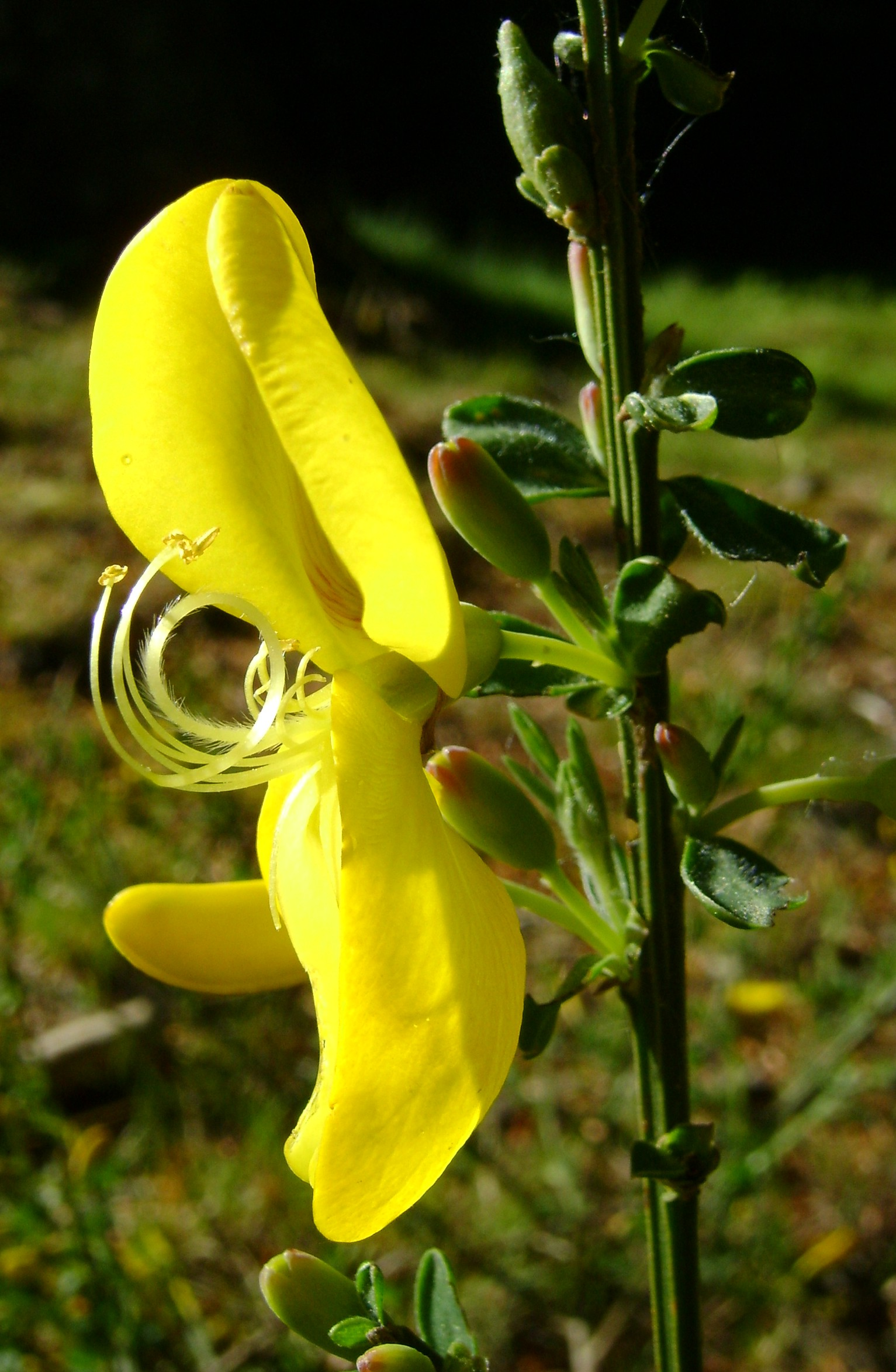 Flower of Cytisus scoparius